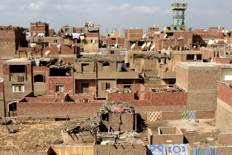 Cairo poverty